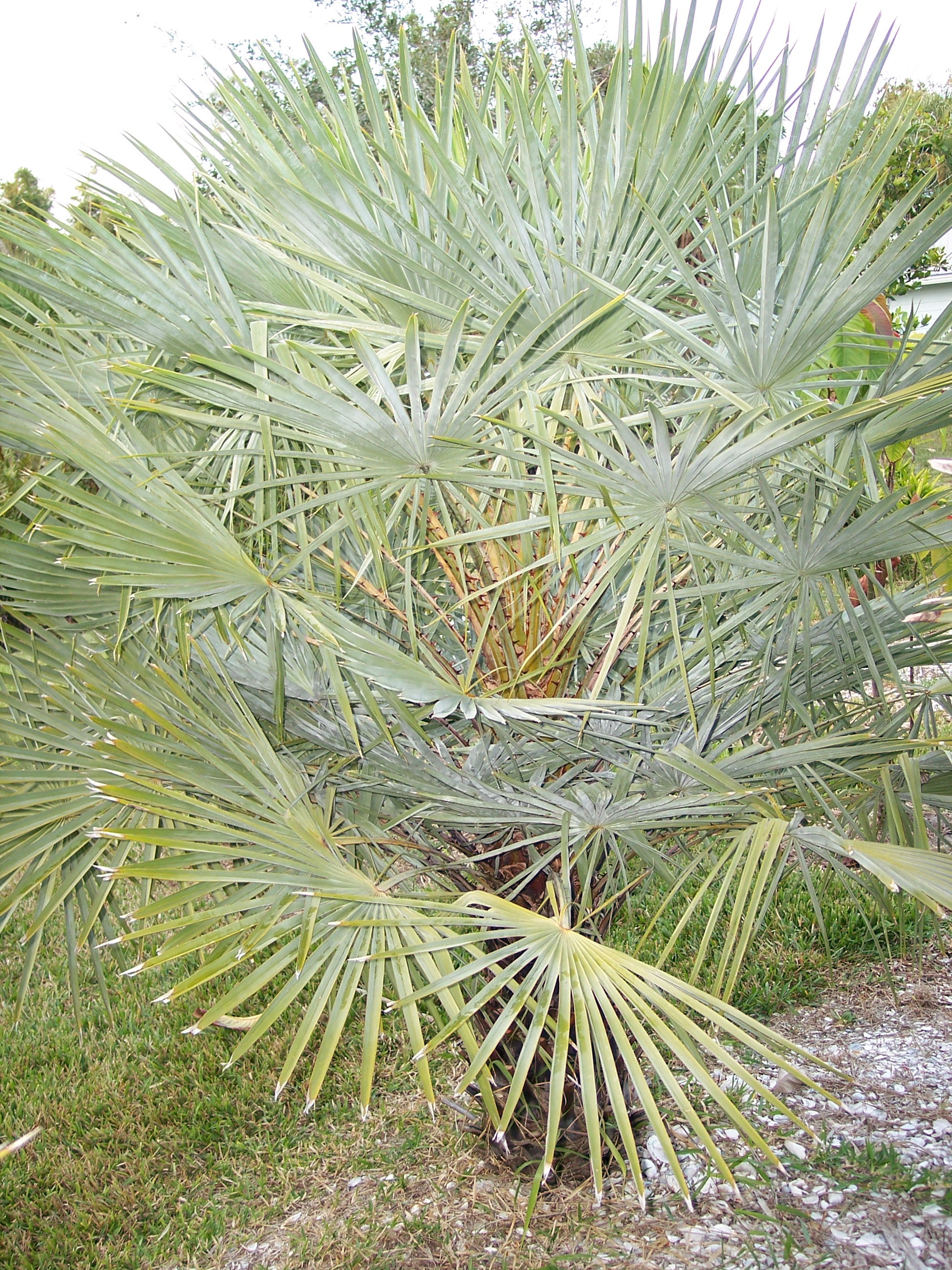 Young Copernicia prunifera Tampa, Florida